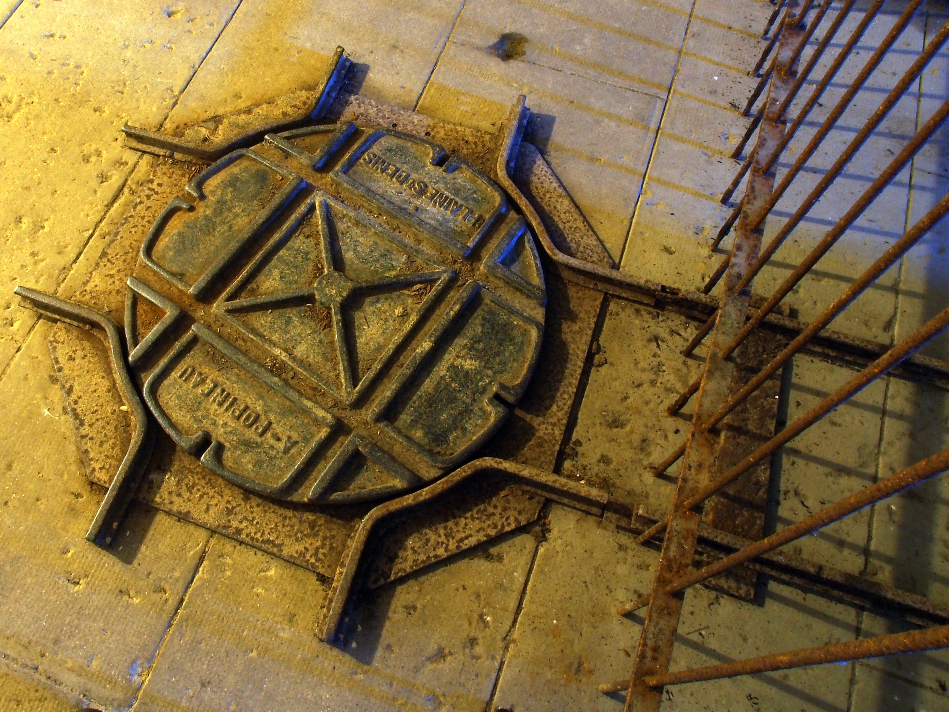 Fort de Douaumont, switch of rails used inside the fortress.